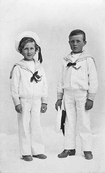 Studio portrait of brothers Alan (left) and Ronald (right) McNicoll dressed in sailor outfits as young boys. The brothers went on to have distinguished careers in the Australian Military.